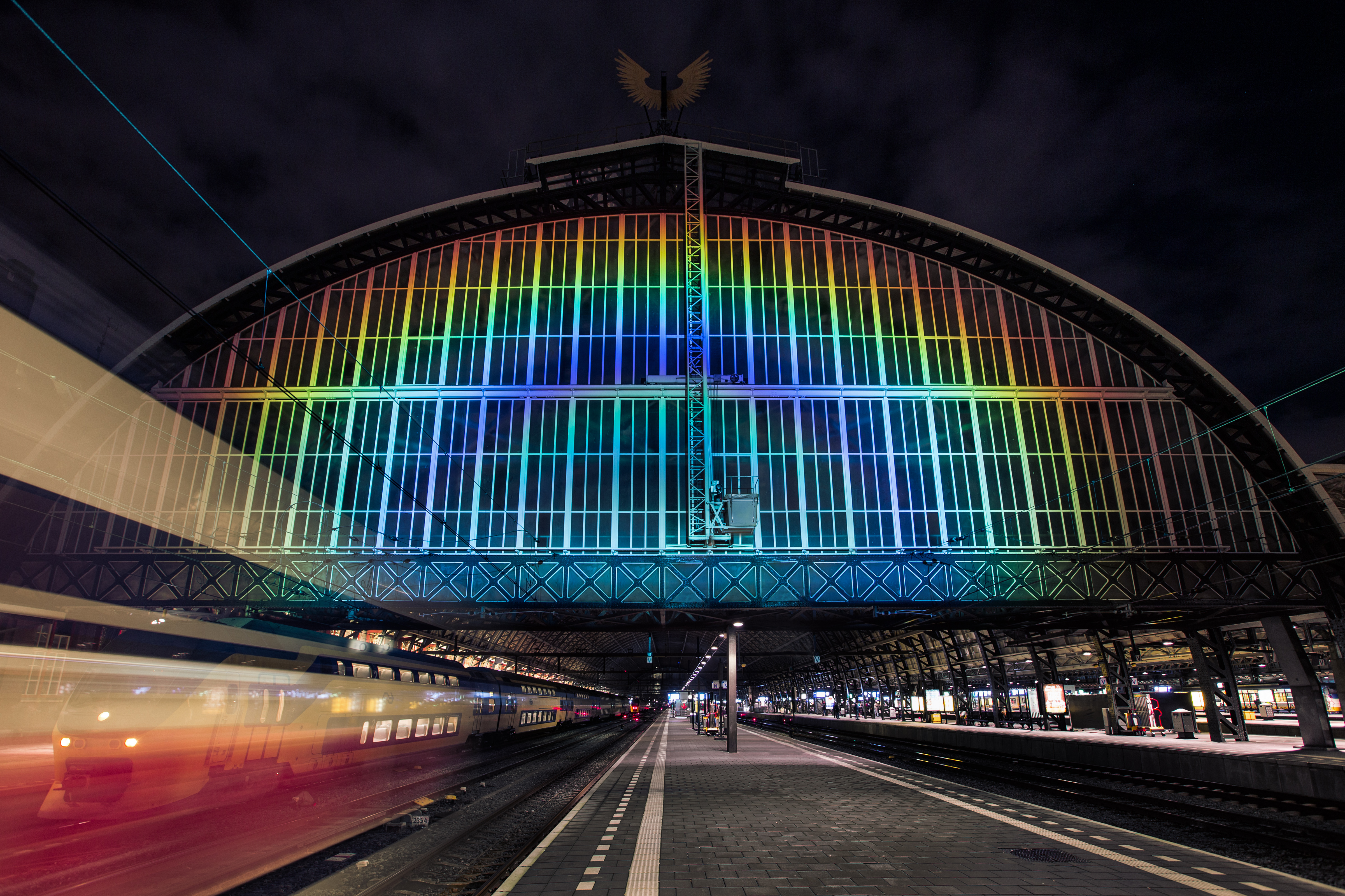 Rainbow Station can be seen every day for a whole year for a brief moment within an hour after sunset at the east side of the station. Daan Roosegaarde "Rainbow Station creates a unique place for travellers, an experience you can not download".